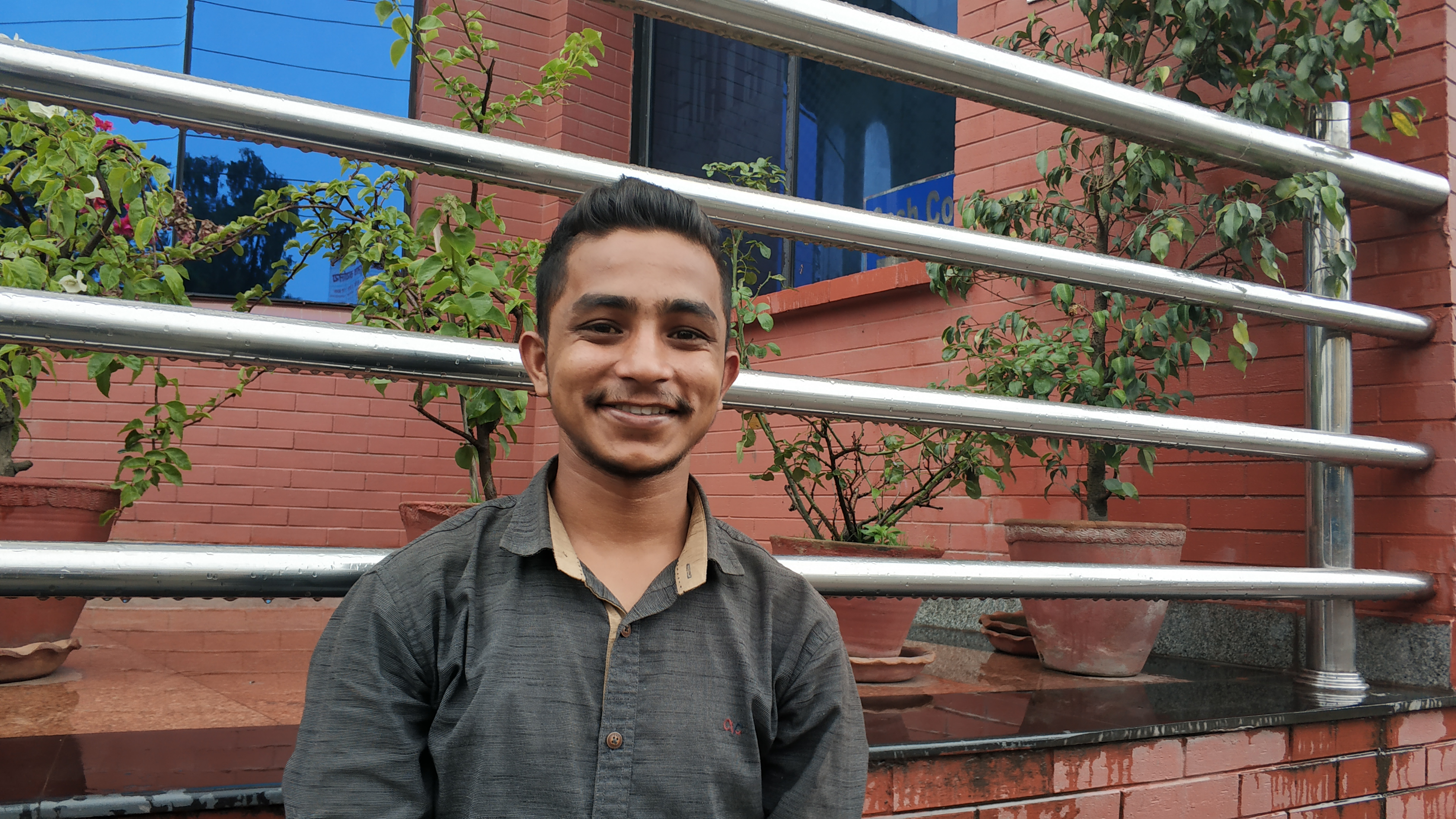 KP Khanal is the youngest Social Activist of Nepal. He was involved in social service at an early age. he was born on January 11, 2000, at Achham district of Nepal.